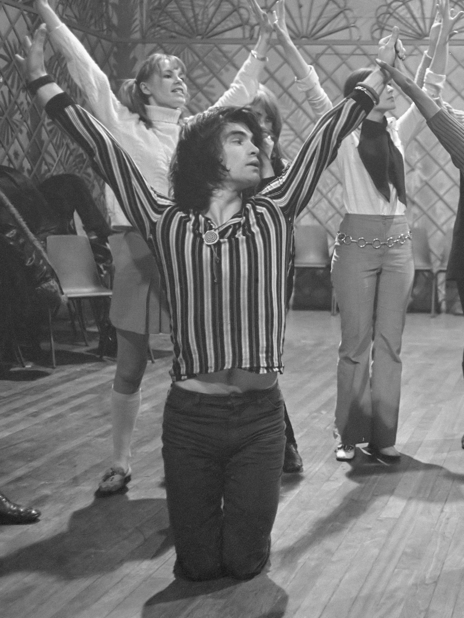 Repetities voor musical "Hair" in Amsterdam. Hoofdrolspeler Oliver Tobias (links voor) met Charlene Collins (USA) die ook voor choreografie zorgt 14 december 1969